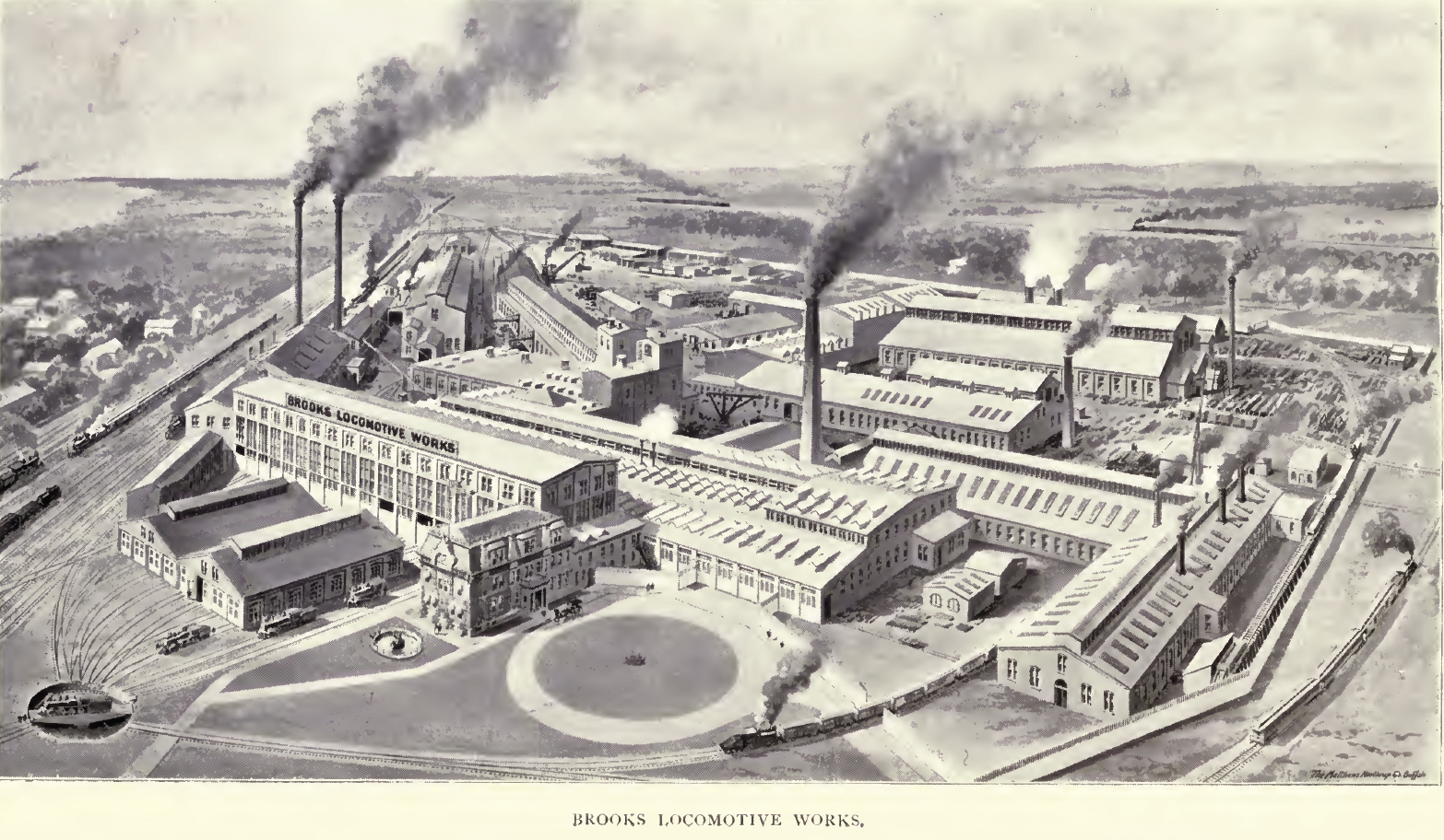 Aerial view of Brooks Locomotive Works in Dunkirk, New York, USA